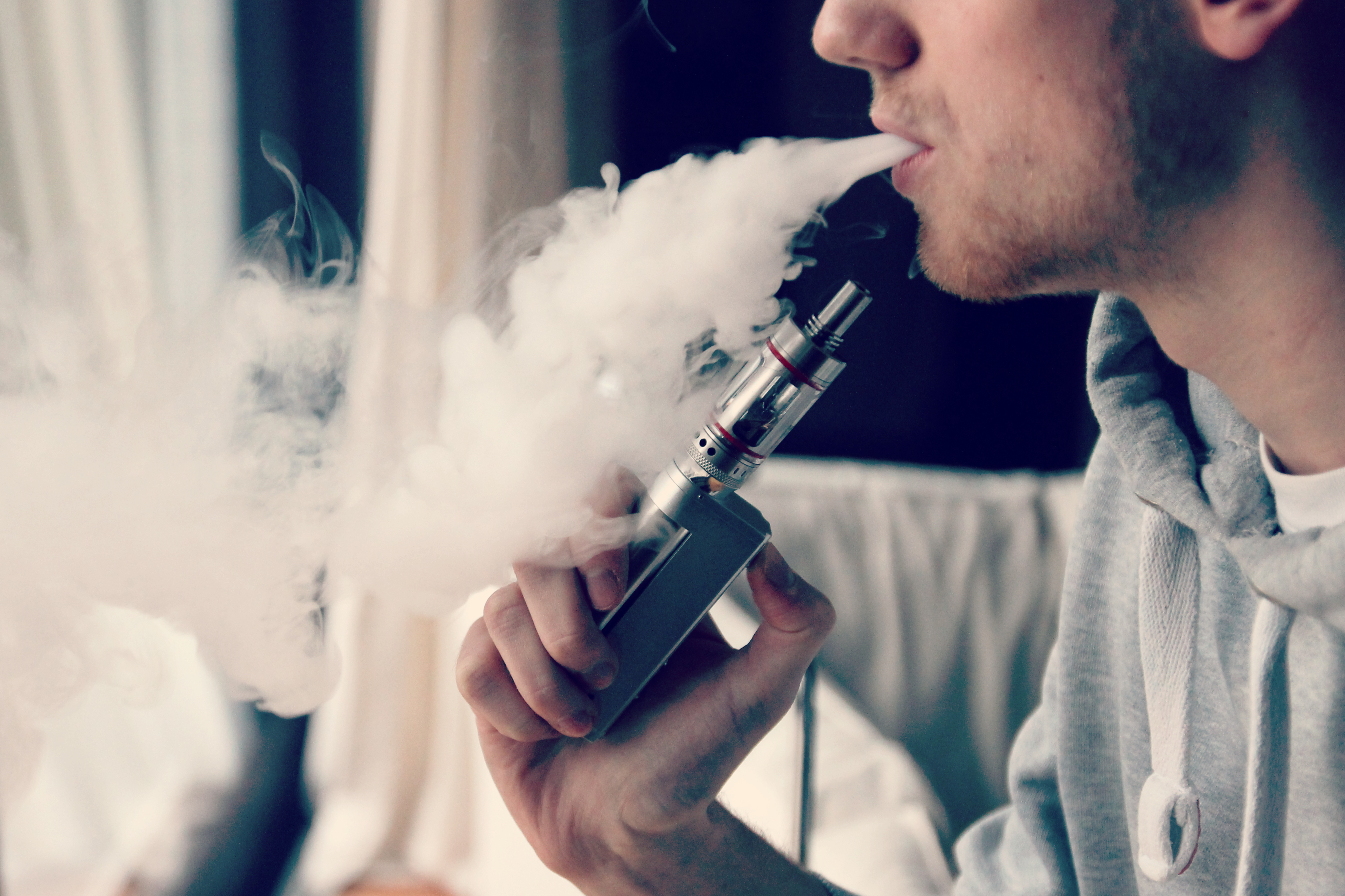 This image is released under Creative Commons. If used, please attribute a DOFOLLOW link to and not to our Flickr page. '